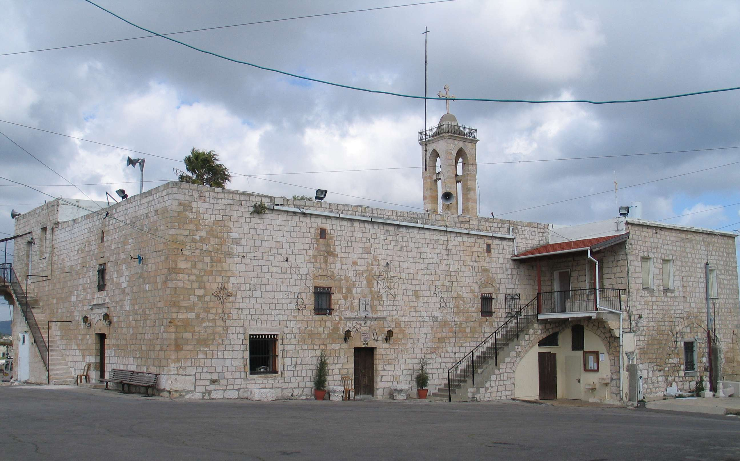 Greek catholic church, Mi'ilya, Israel.